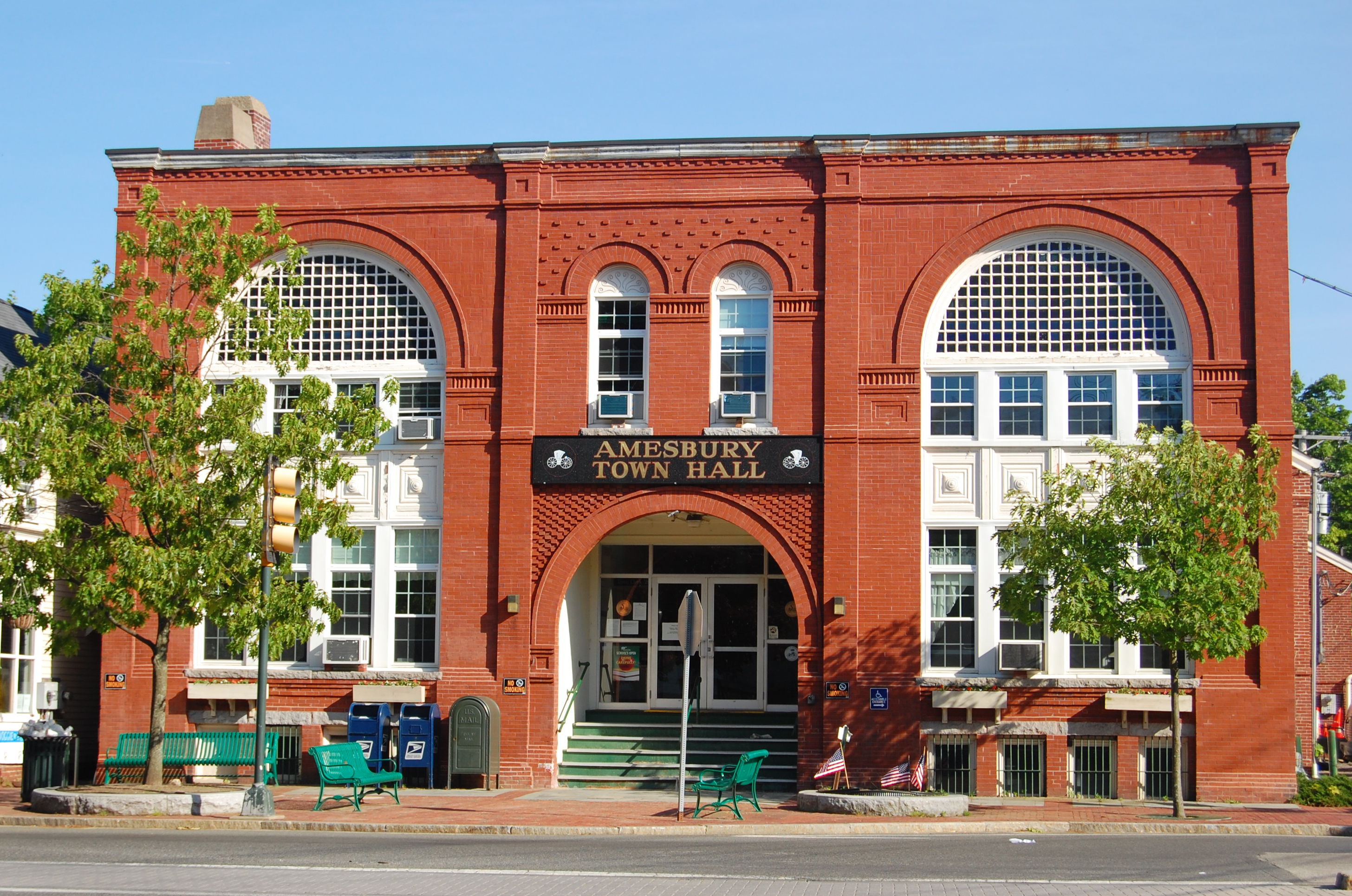 Town Hall of Amesbury, Massachusetts.